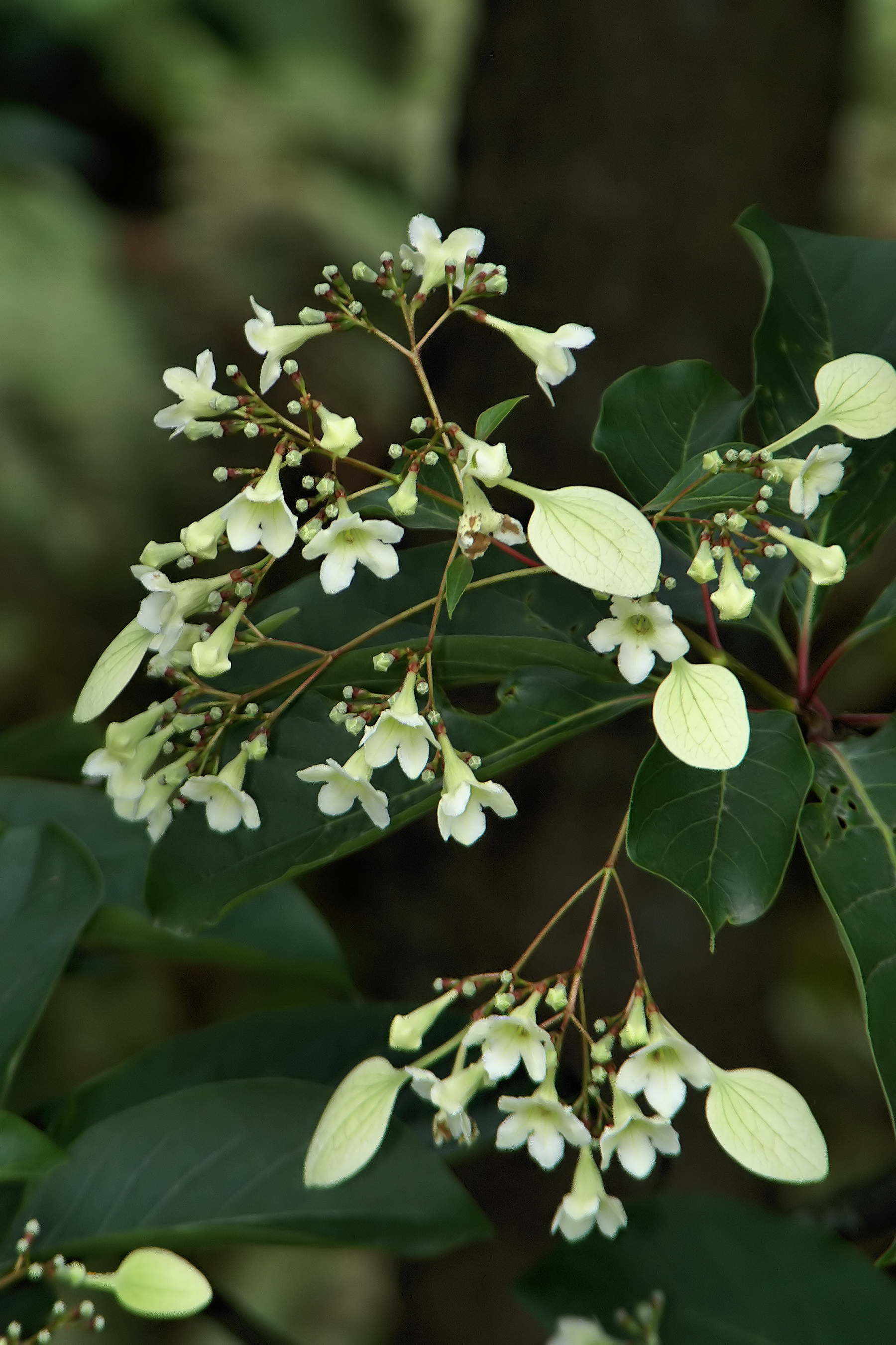 Inflorescence detail at the Arboretum of Kalmthout, Belgium. This tree flowers only once every 20 to 25 years. This was the fourth flowering specimen in Europe ever at that time (2006).